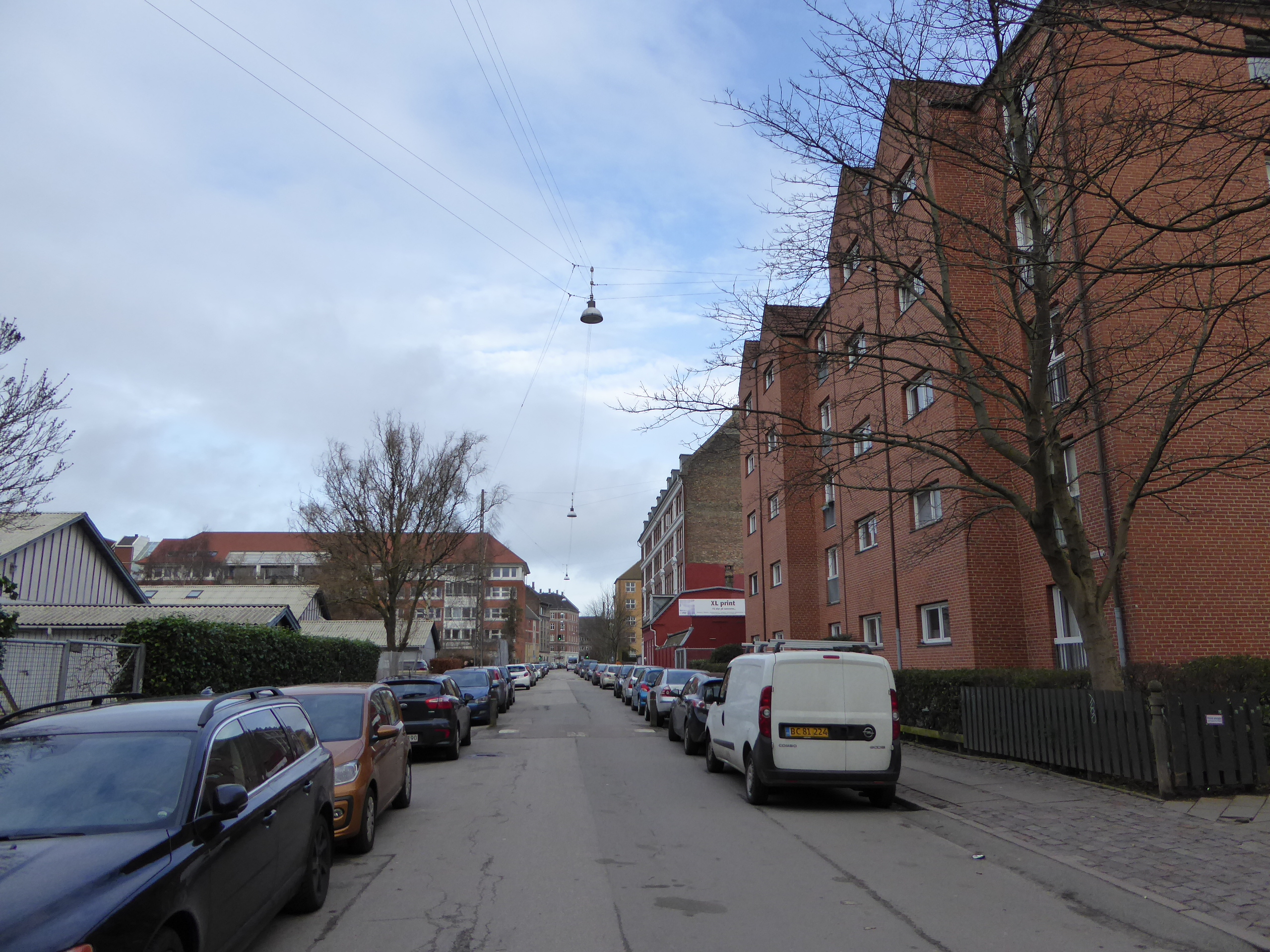 The street Rådmandsgade in Nørrebro in Copenhagen.